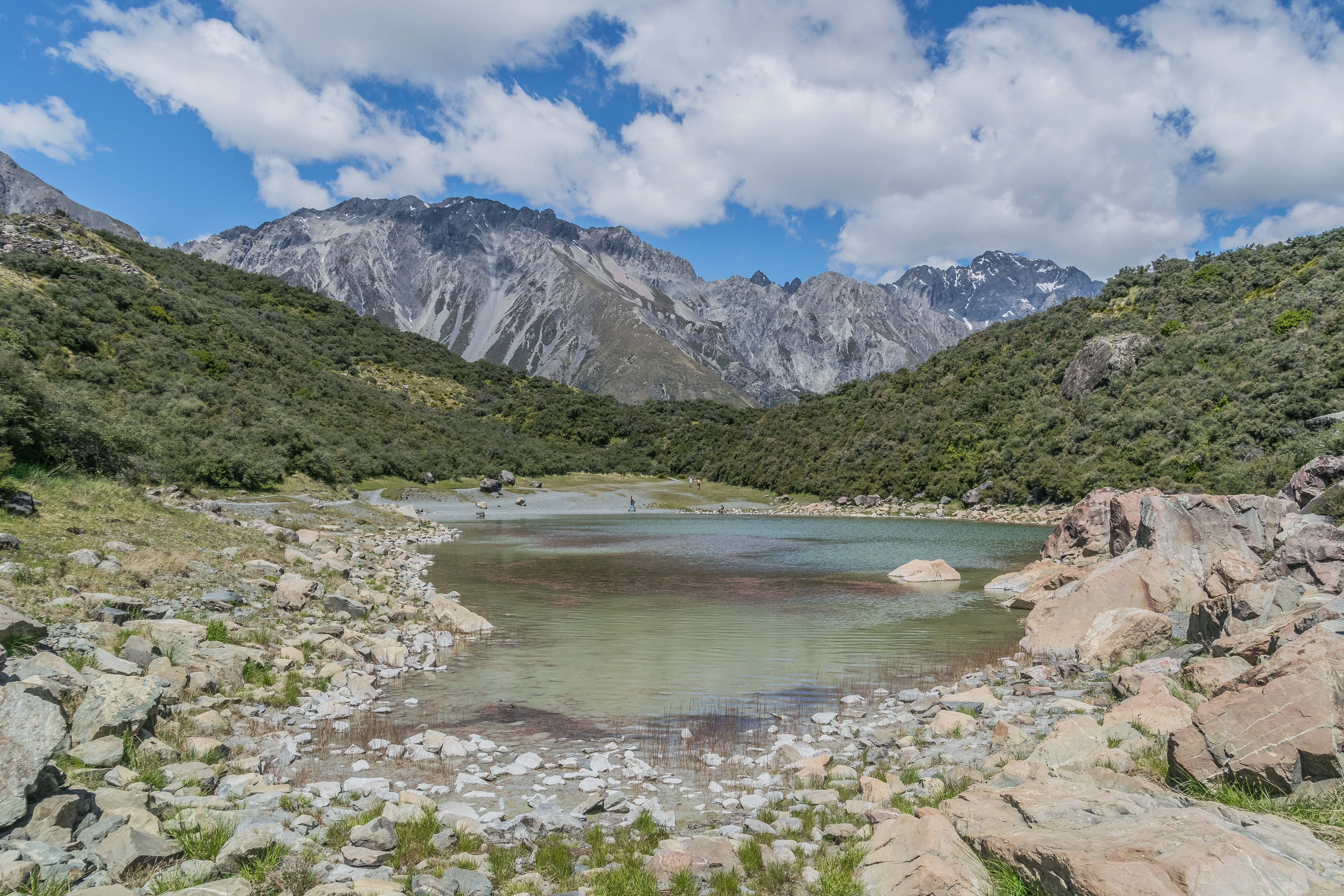 Blue Lake in Aoraki/Mount Cook National Park, South Island of New Zealand